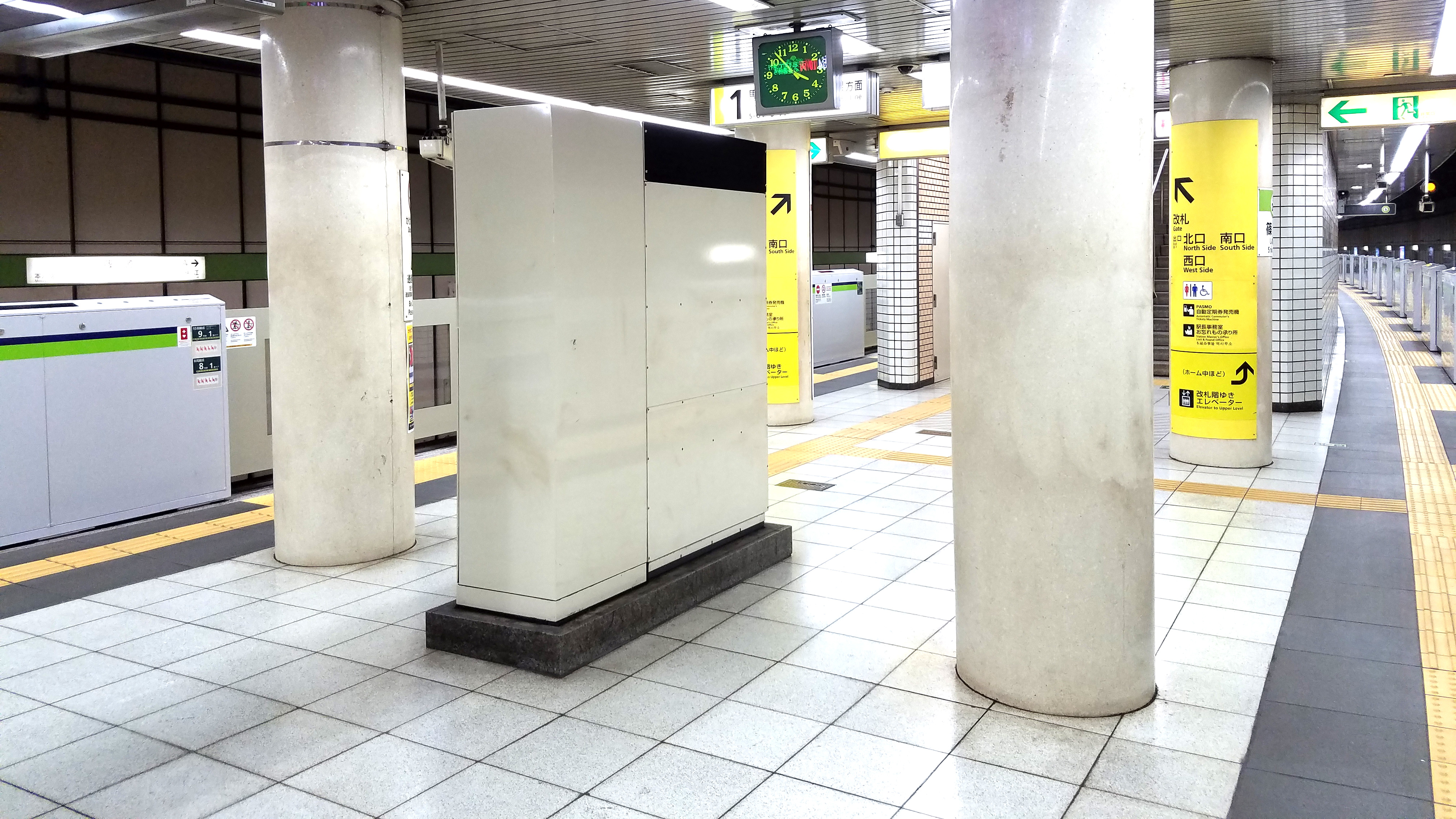 The platform at Shinozaki Station on the Toei Shinjuku Line in Edogawa city, Tokyo, Japan